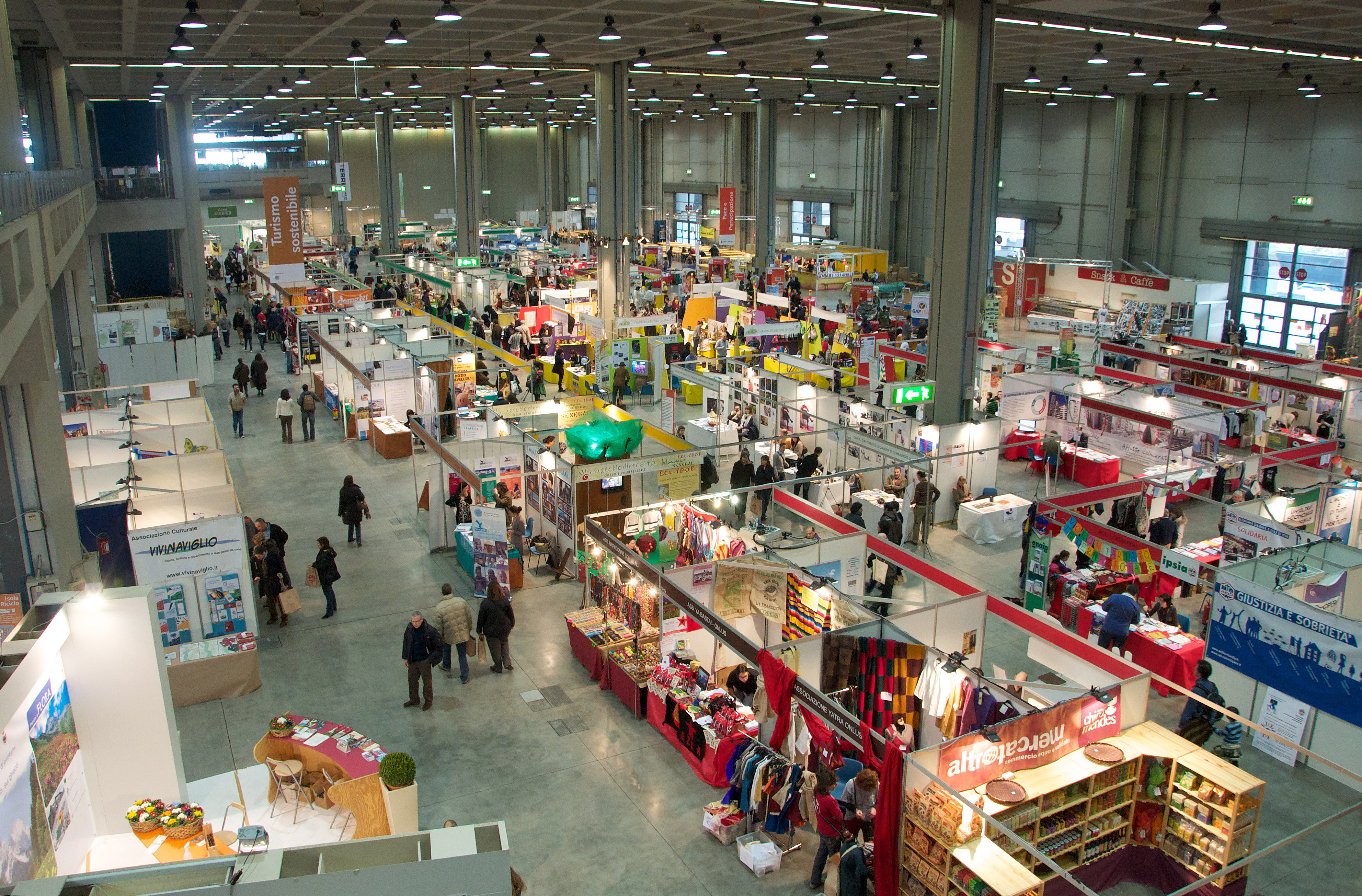 Fieramilanocity pavilion during "Fa la cosa giusta" exhibition.